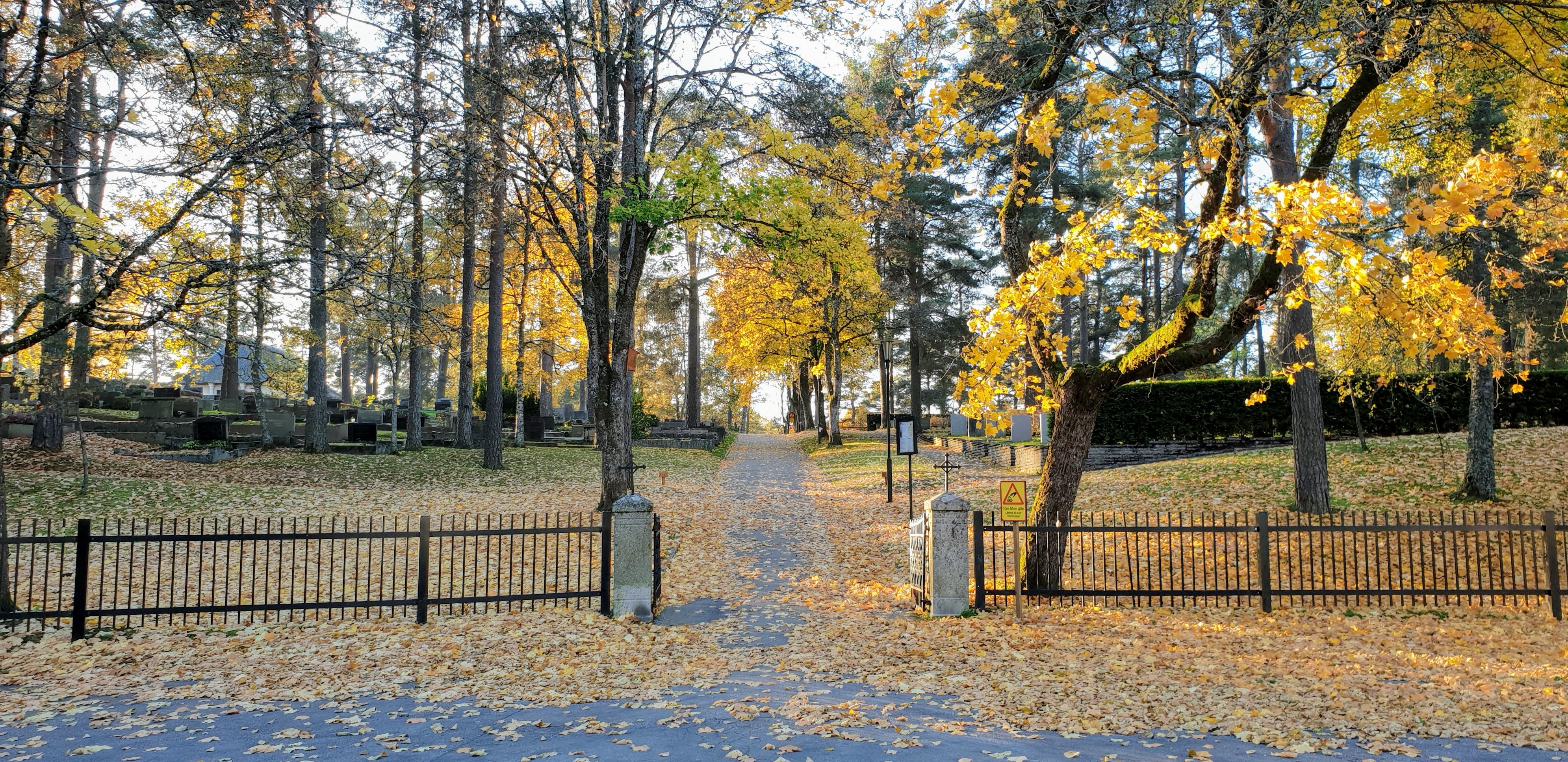 The entrance to the forest cemetery in Ljungby.